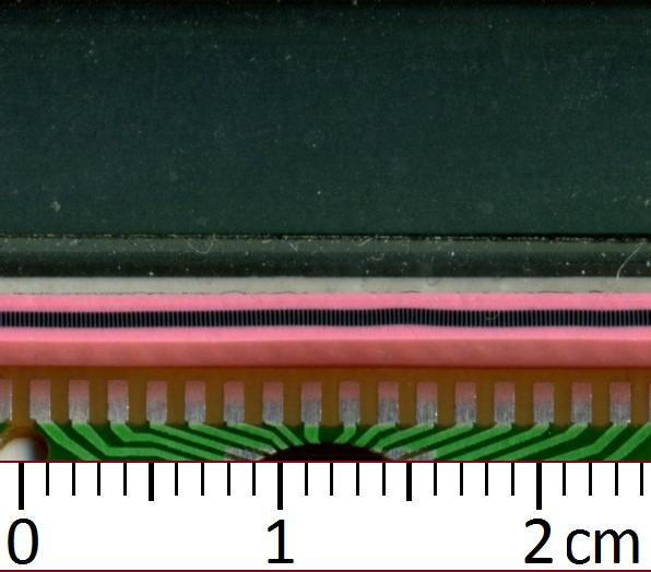 Brand name Zebra Elastomeric Connector] Zebra connectors are used to connect LCD displays to circuit boards Photo shows pink and black zebra connector disconnected from LCD and circuit board An isolating pink elastomer is containing many stripes of black conductive elastomer, ordered across the longitudinal direction (in this way only directly opposed contacts are getting connected) Center-to-center distance of stripes is 180 microns (7 mils)